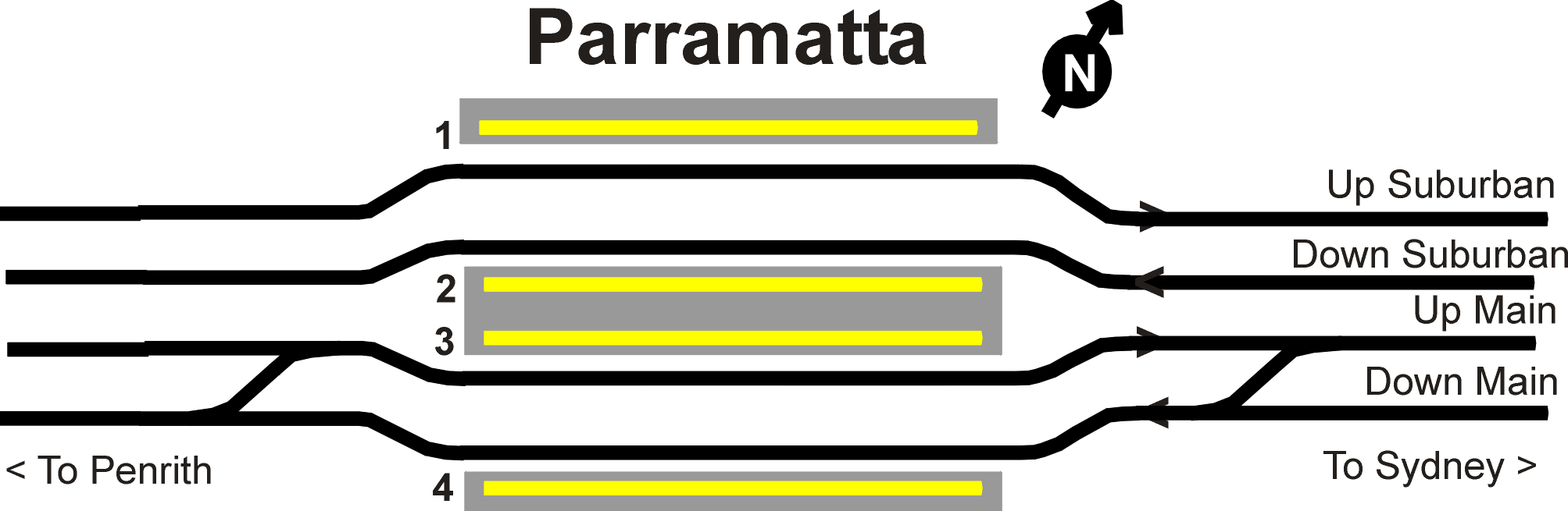 Track arrangement at Parramatta railway station, Sydney